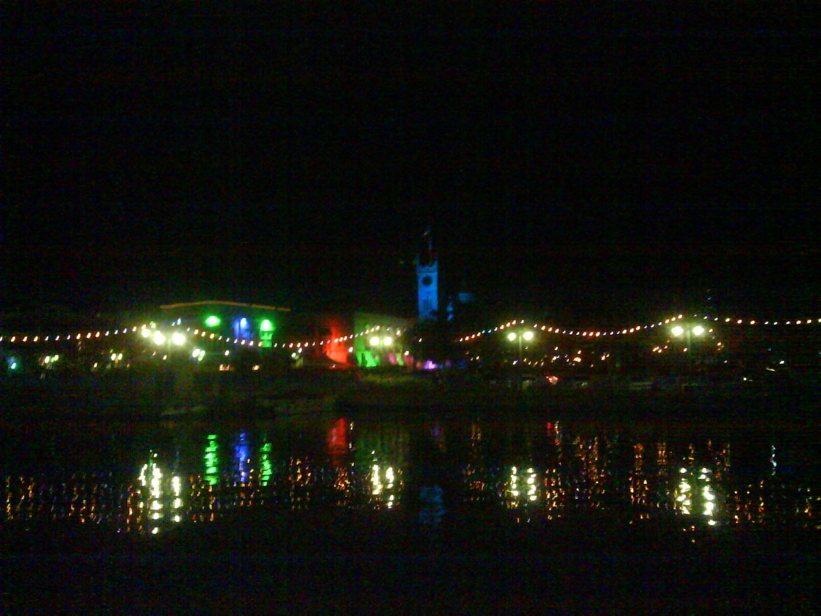 The Parliament of Barbados at night as seen from across the Constitution River. The city is illuminated for national independence / Christmas season.